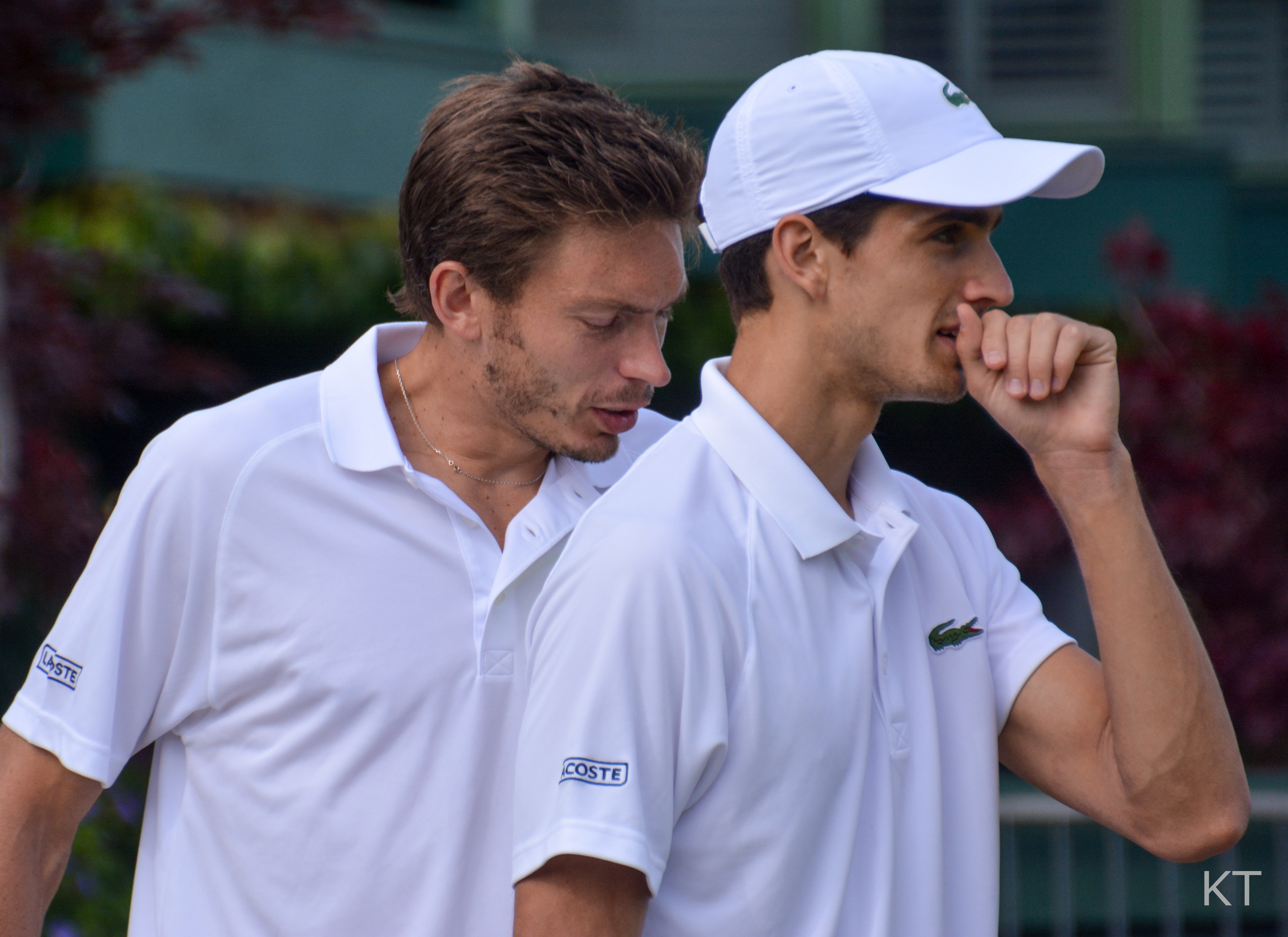 Nicolas Mahut & Pierre-Hugues Herbert. Middle Sunday of Wimbledon 2016.